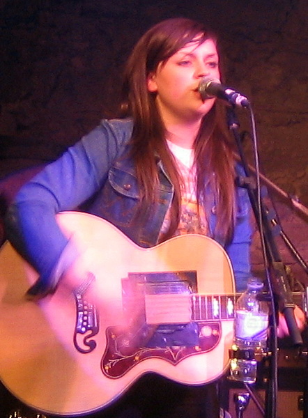 Amy Macdonald on stage at the Tennents T On The Fringe After Party at The Caves, Niddry St South, Edinburgh. From